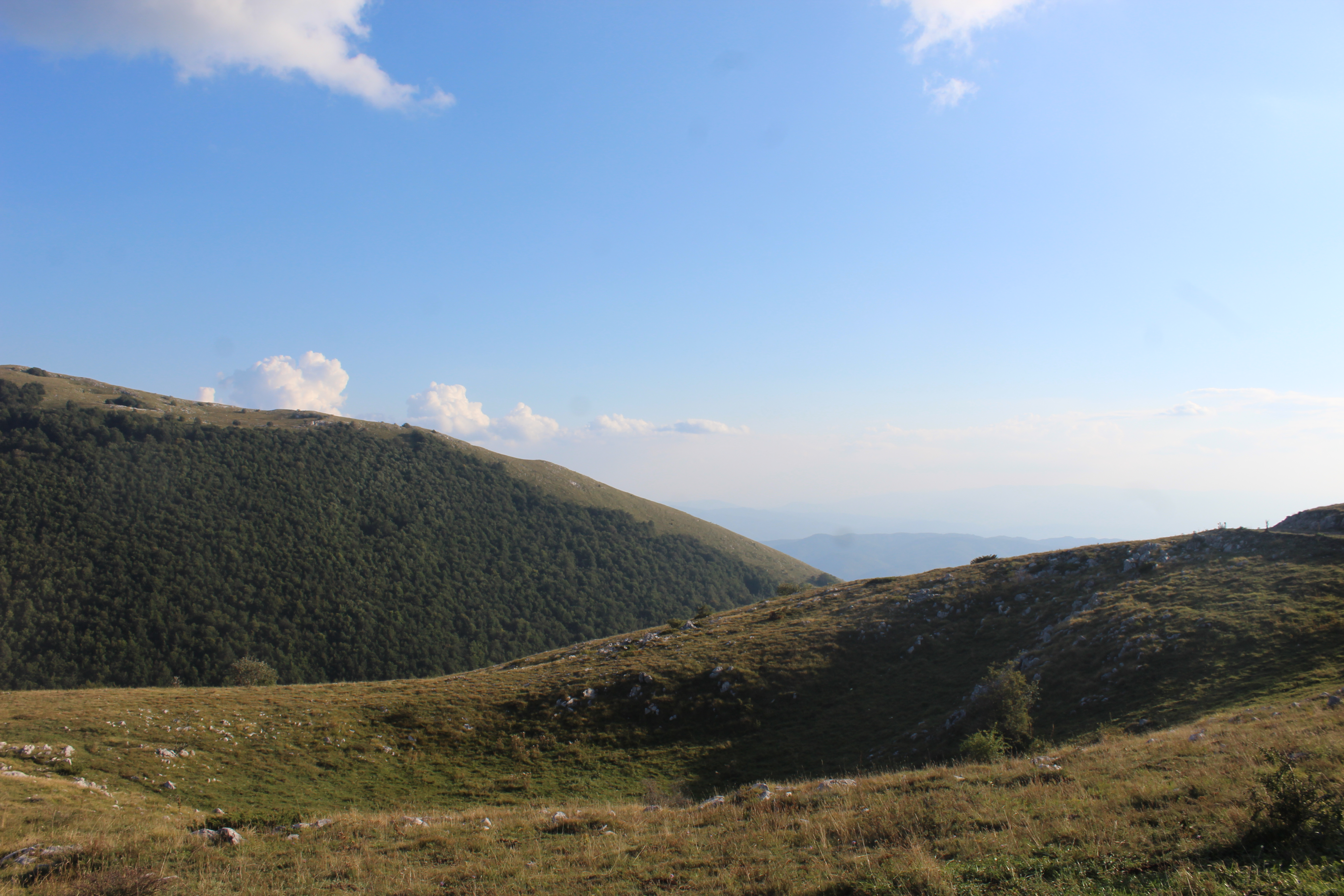 Sinkhole in the karst of the Suva mountain. Srpski (latinica): Vrtača u krasu Suve planine.